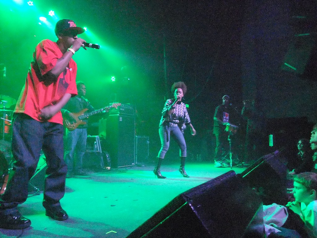 Digable Planets performing at Aggie Theatre on December 11, 2010 in Fort Collins, Colorado.